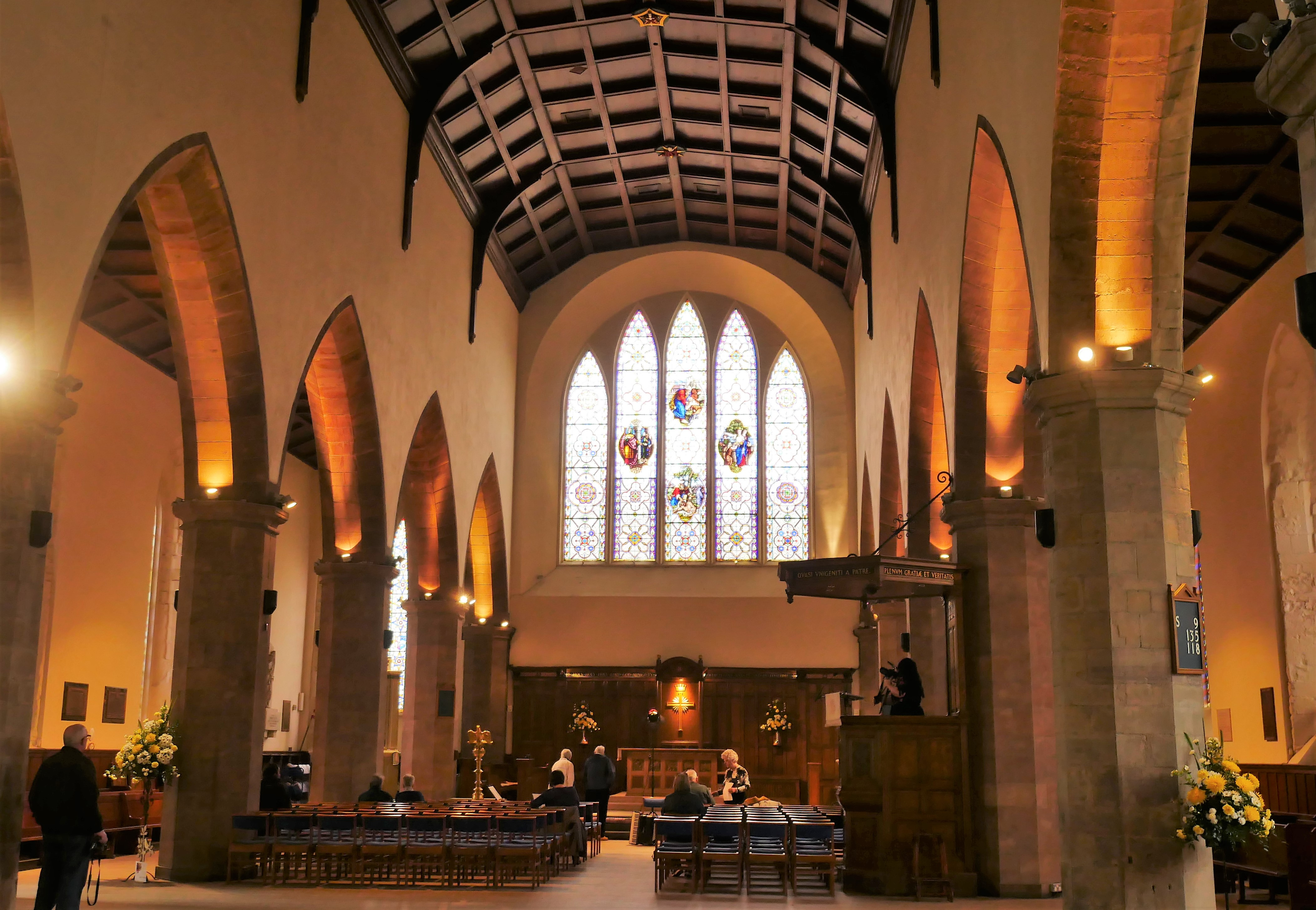 Greyfriars Church April 2019